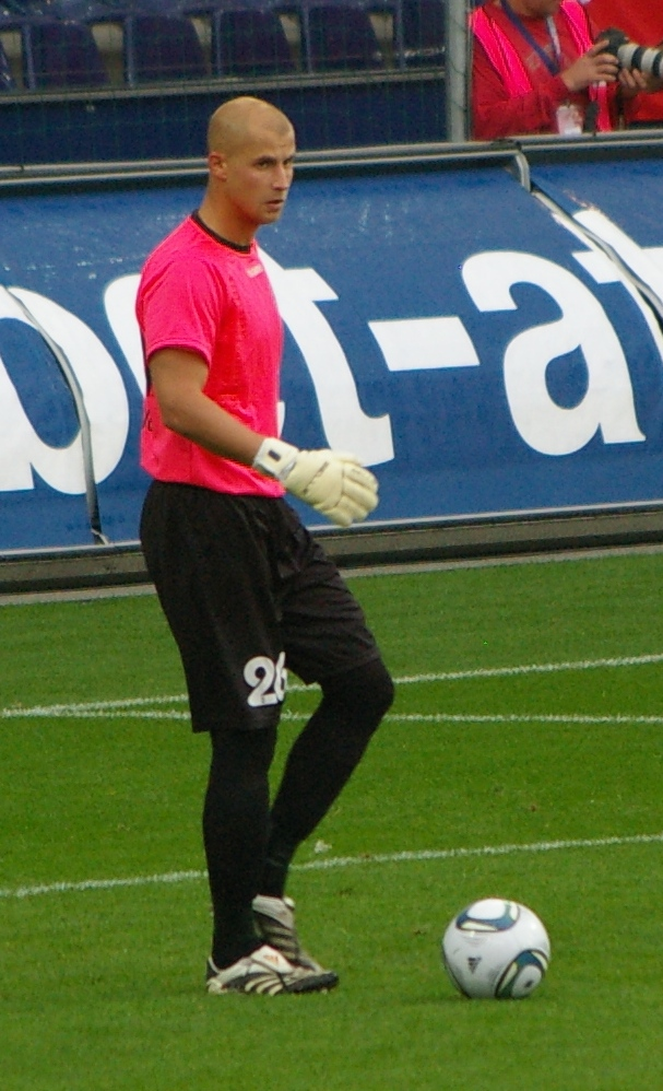 Czech goalkeeper Petr Bolek, playing for FK Senica